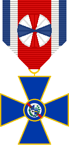 Uruguayan Medal of Military Merit in Officer grade